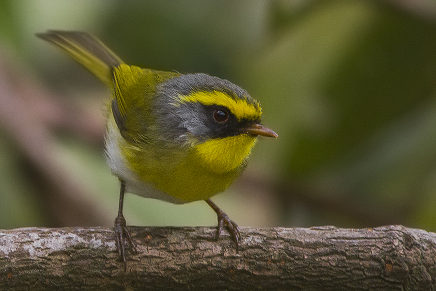 The species Black-faced Warbler had been photographed from Naina Devi Himalayan Bird Conservation Reserve during GoingWild's birding trip at Nainital of the state of Uttarakhand in India on 28.11.2015.